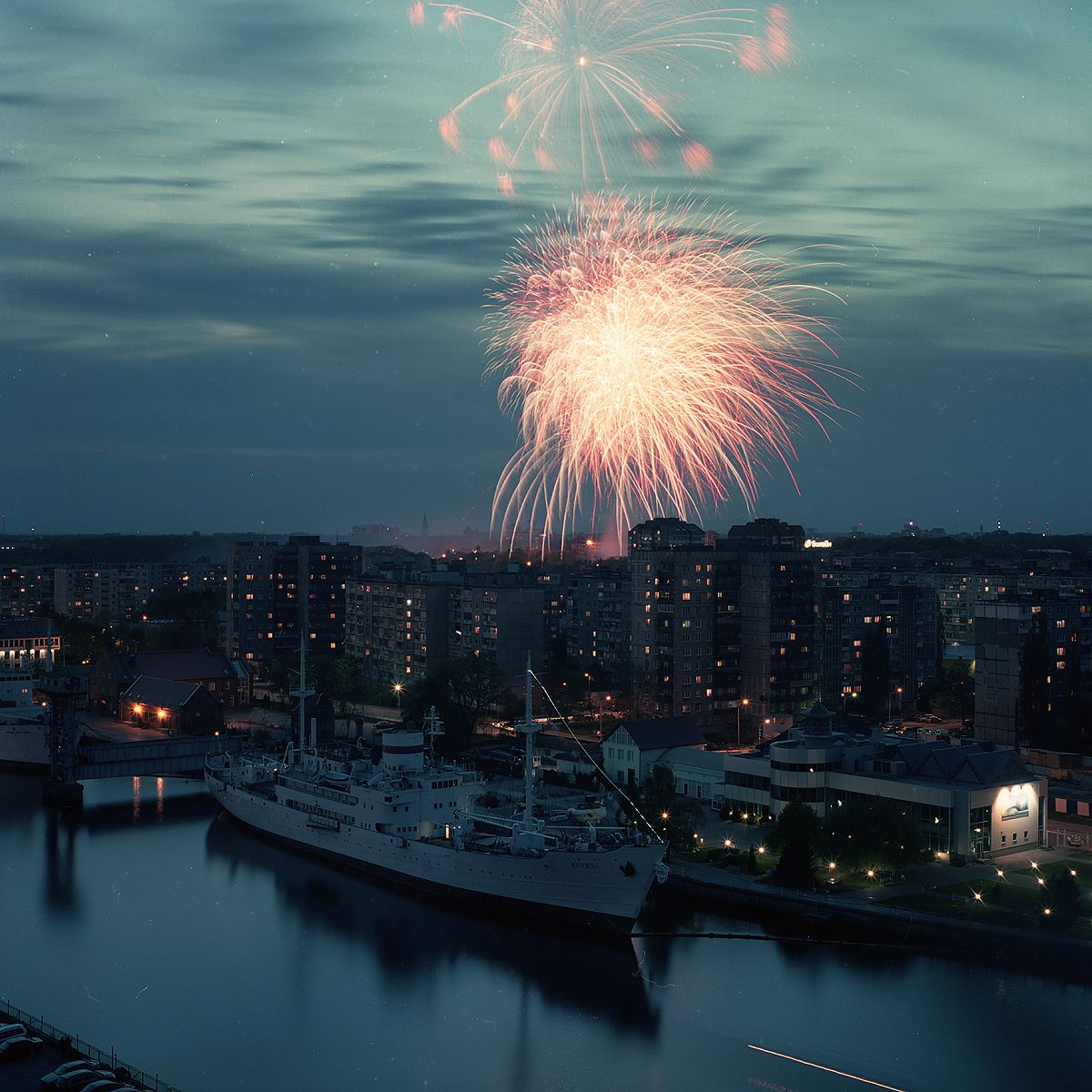 Kaliningrad, 9th may: Day of Victory.